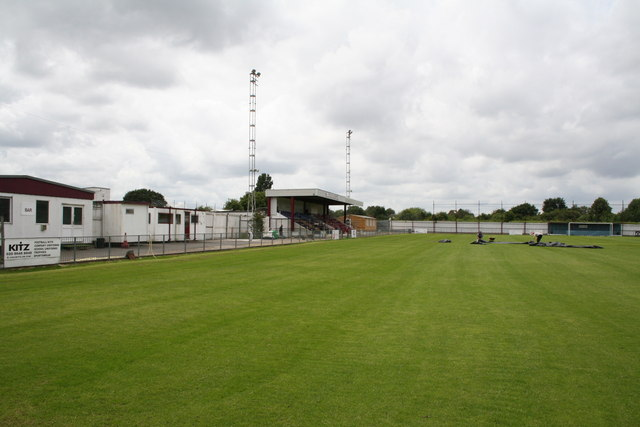 Carshalton Athletic Football Club